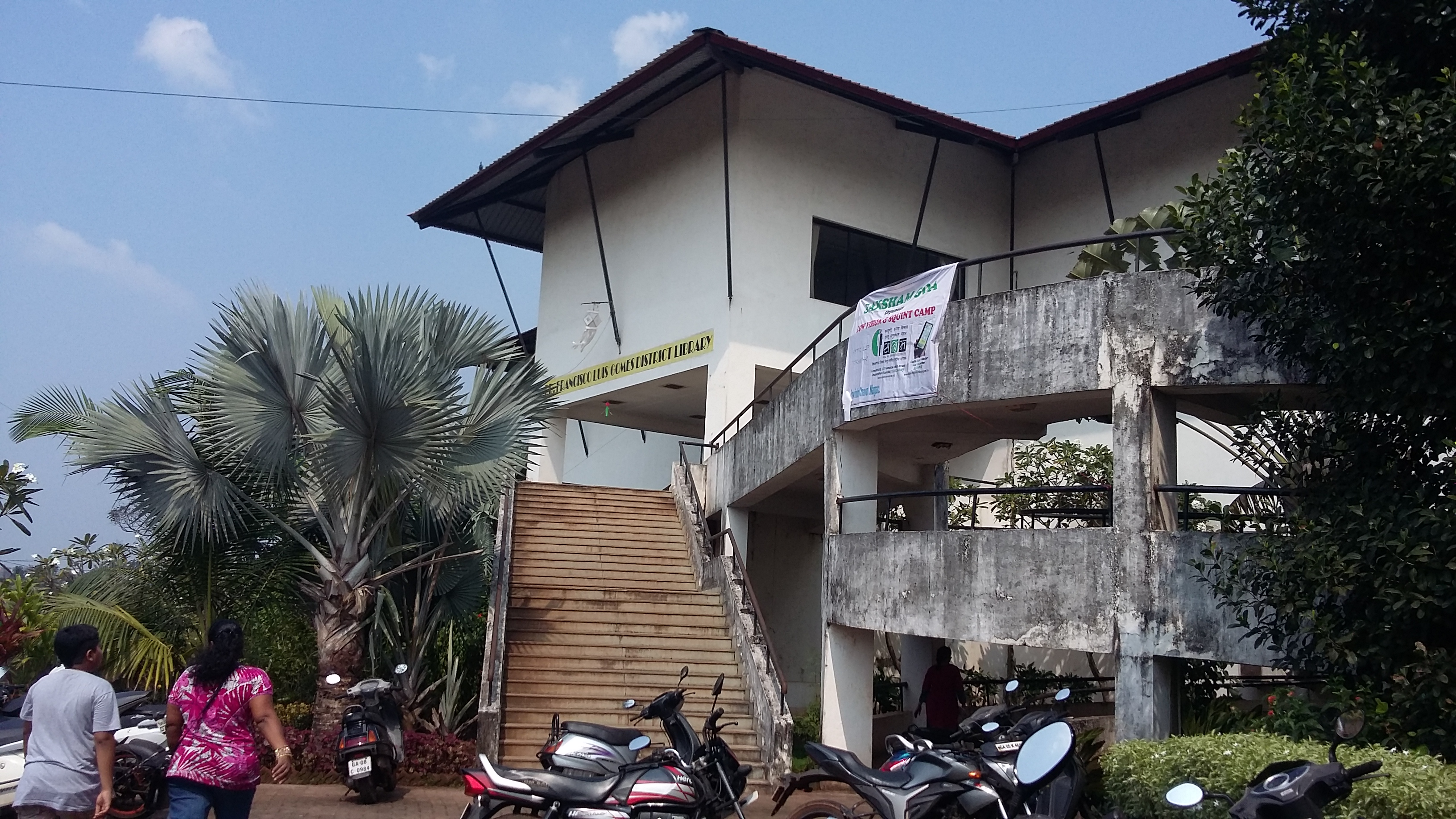 The magazine section